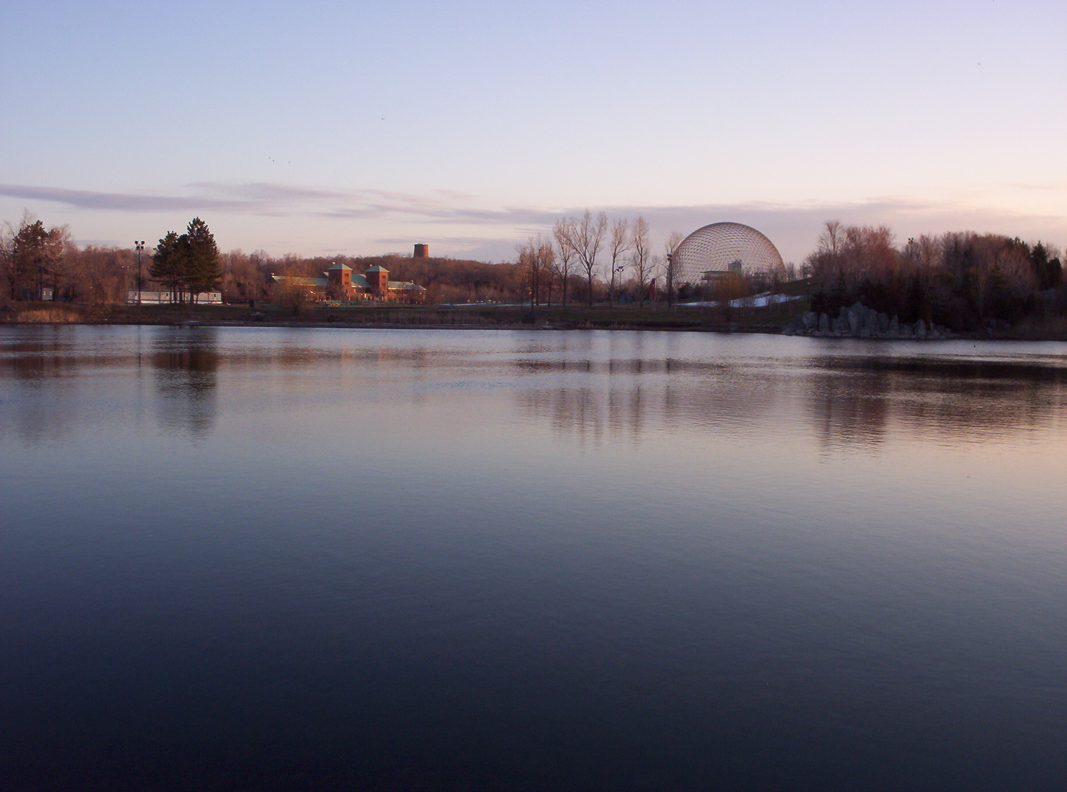 Summary: Part of Jean-Drapeau park in Montréal, Quebec Author: Colocho Date: April 10th, 2006